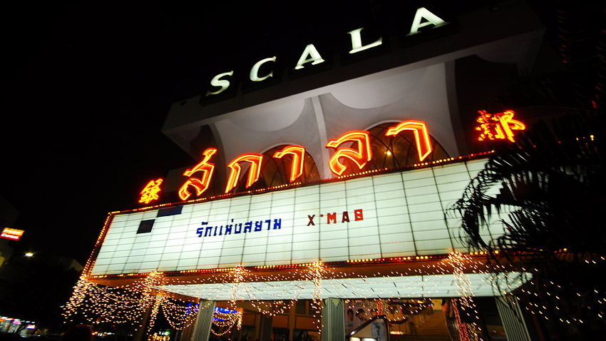 The Scala Theater in Siam Square, Bangkok. It's showing a Thai film, The Love of Siam by Chukiat Sakweerakul.